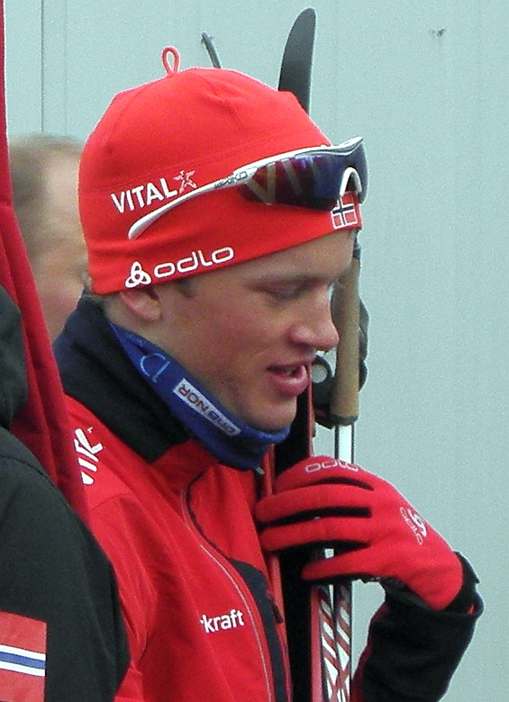 Tarjei Bø (Norway) at the World Cup Biathlon in Oslo